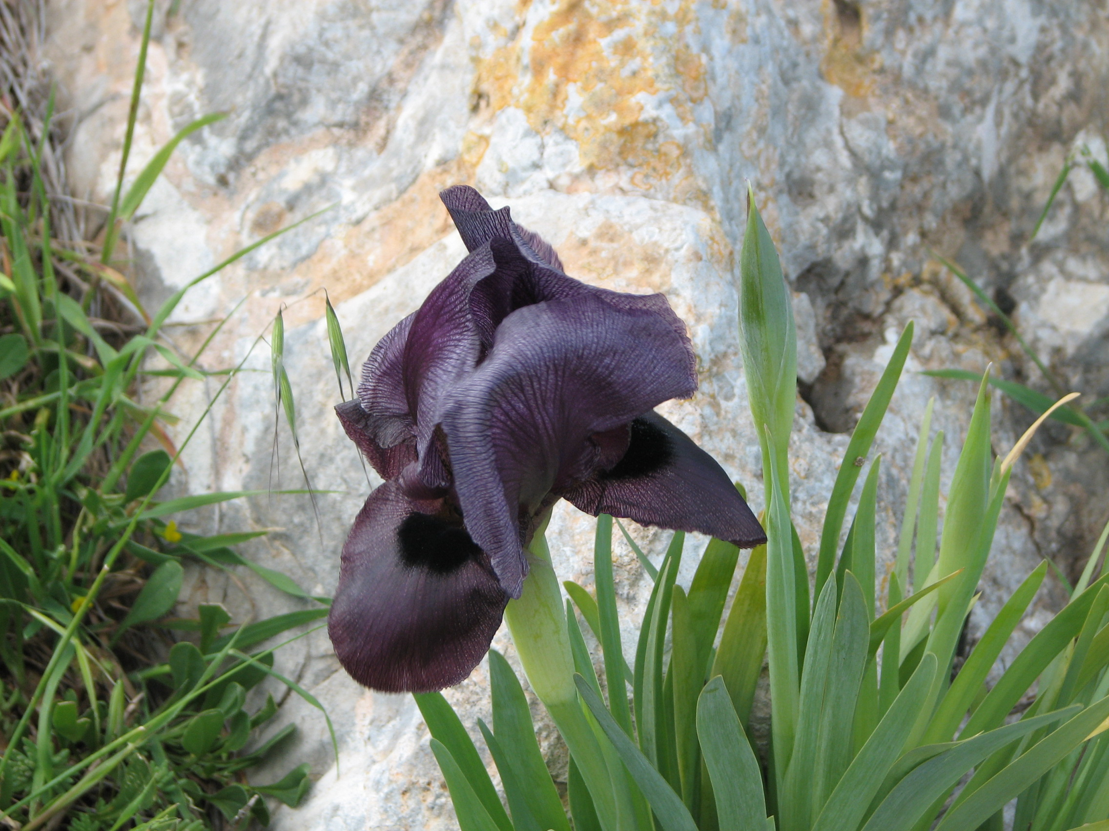 Plants of Israel